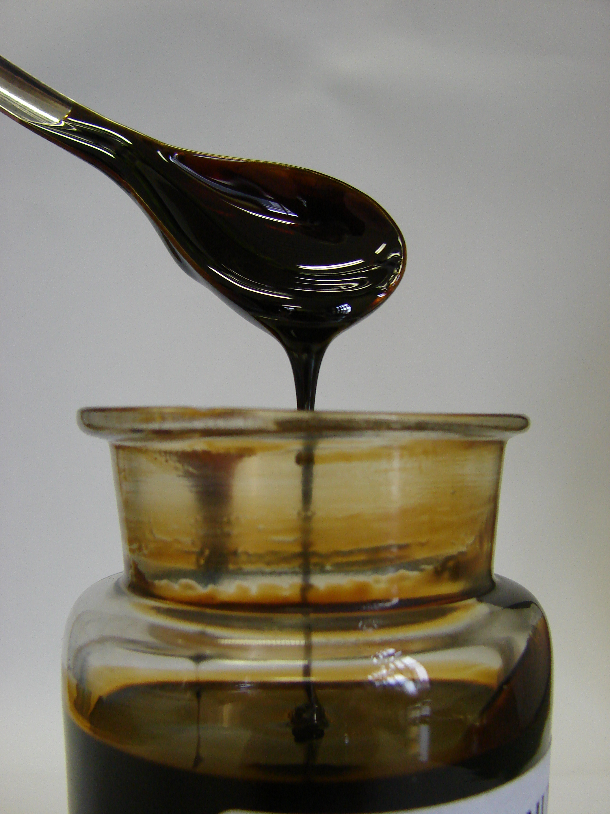 Balsamum peruvianum, Myroxylon balsamum var. pereirae